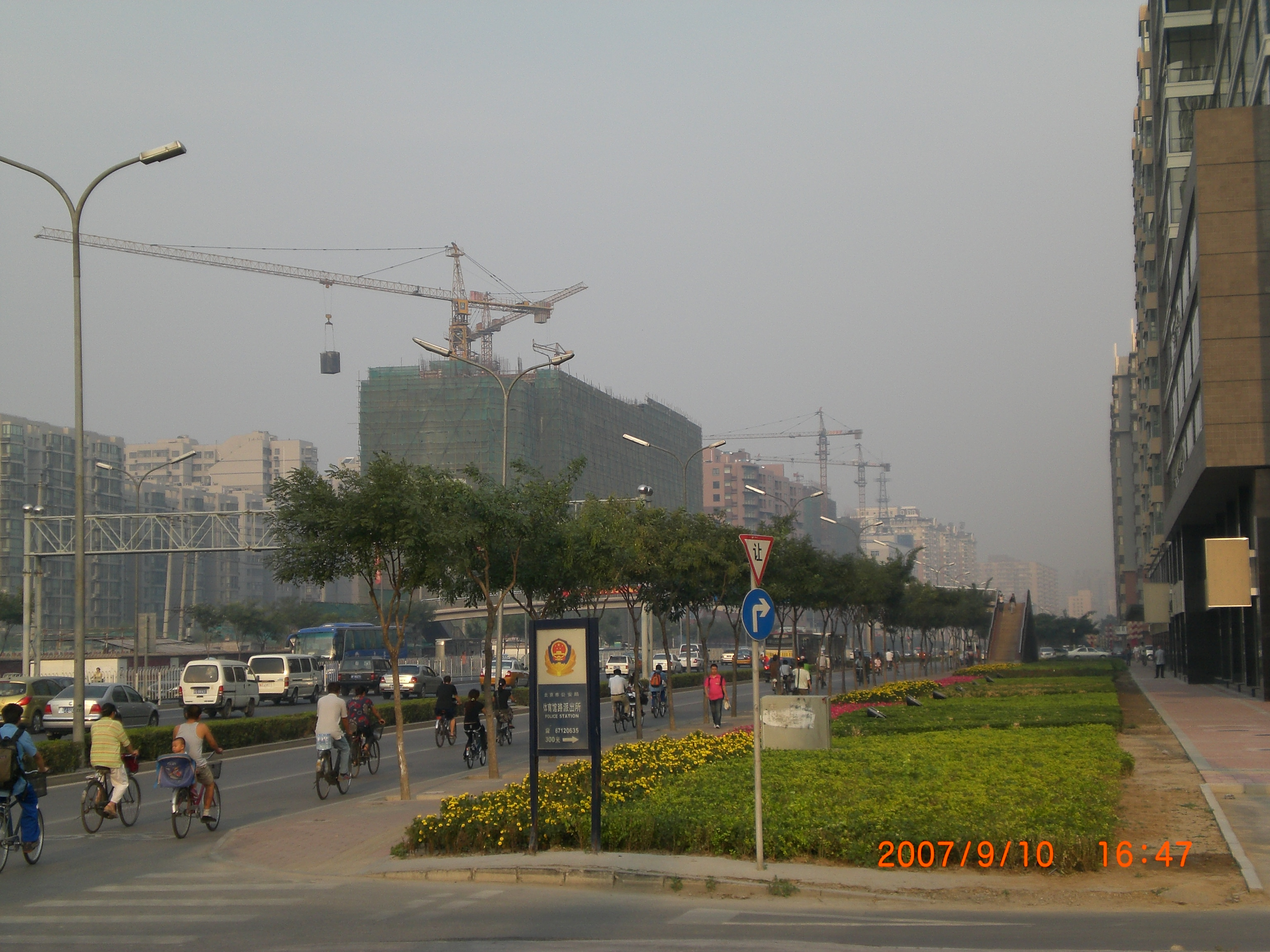 New houses and building Looking east on Guangqumen Inner Street.